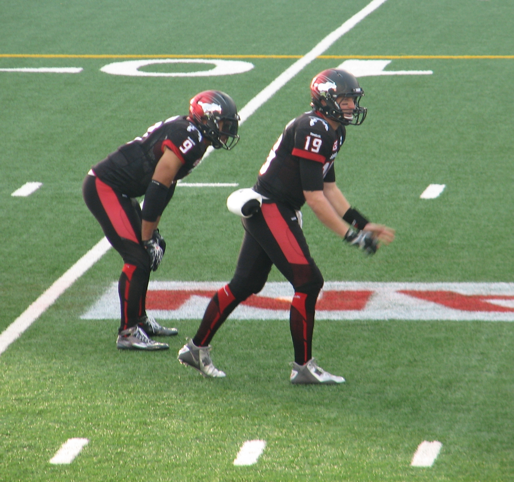 Bo Levi Mitchell, starting quarterback for the Calgary Stampeders, on the field at McMahon Stadium during the Canadian Football League's Western Division Final on 23 November 2014. In the backfield is Jon Cornish.